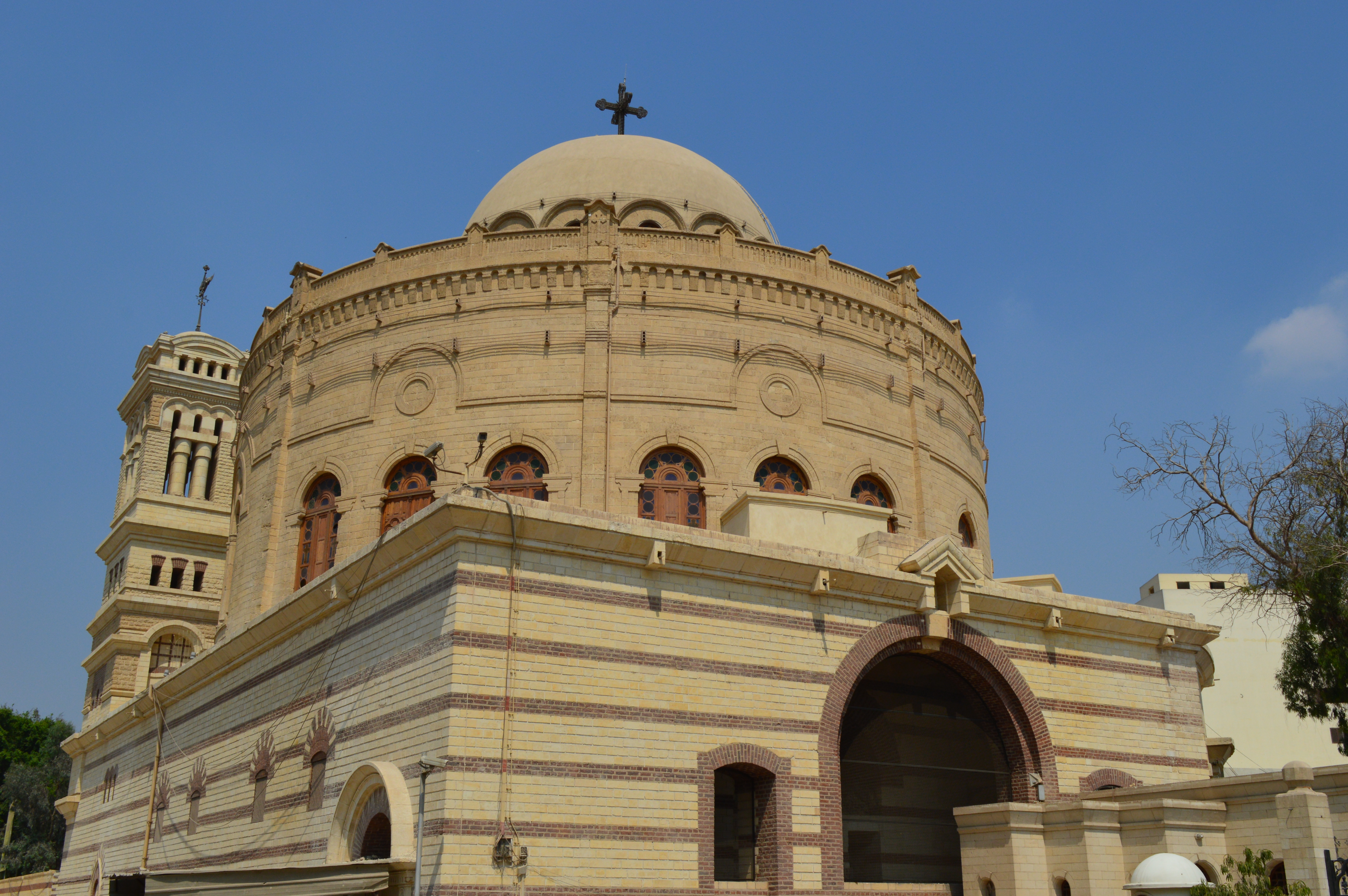 Views inside and outside the Hanging Church and the Church of St. George